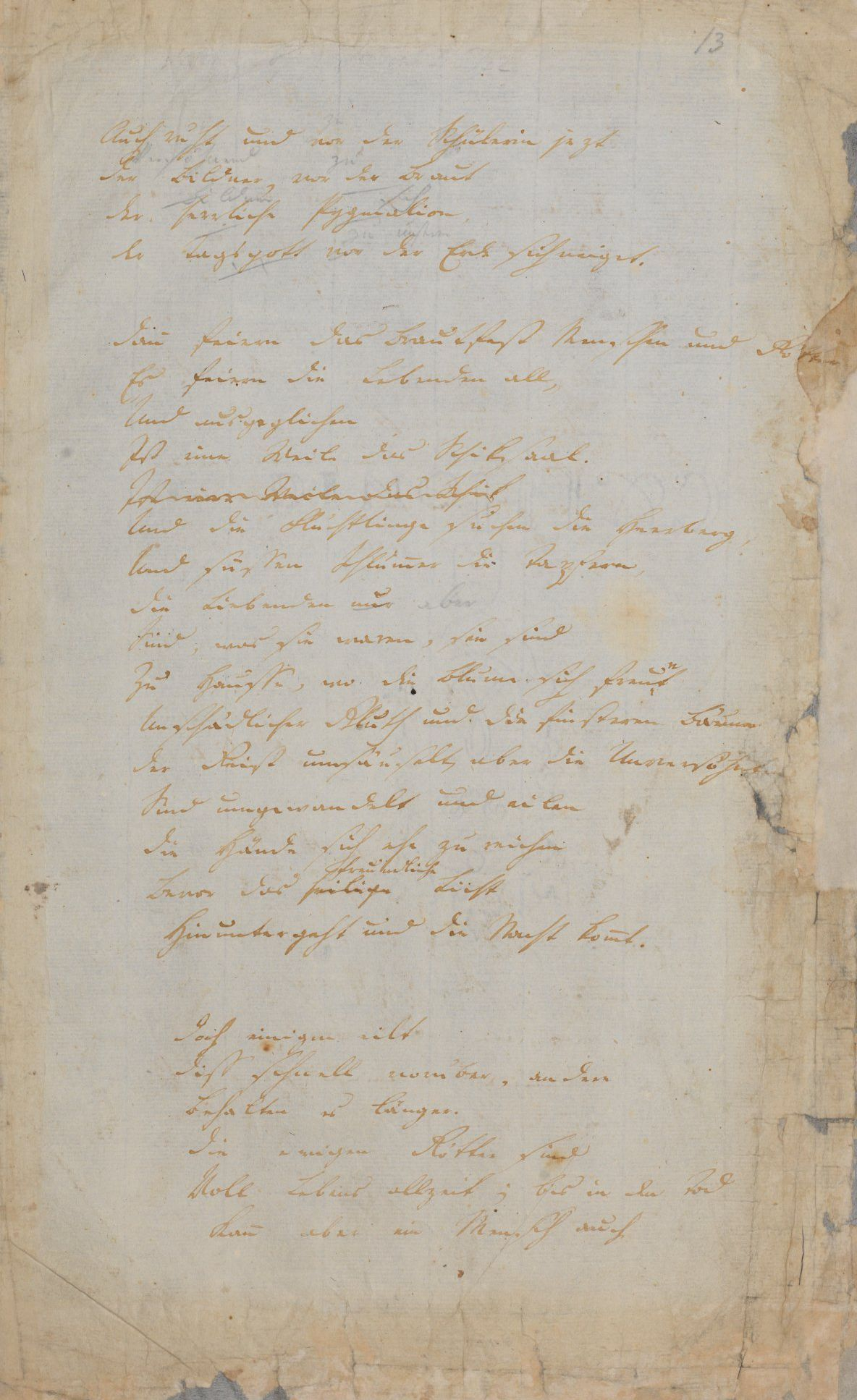 Manuscript of Friedrich Hölderlins poem "Der Rhein", Württembergische Landesbibliothek, page 9